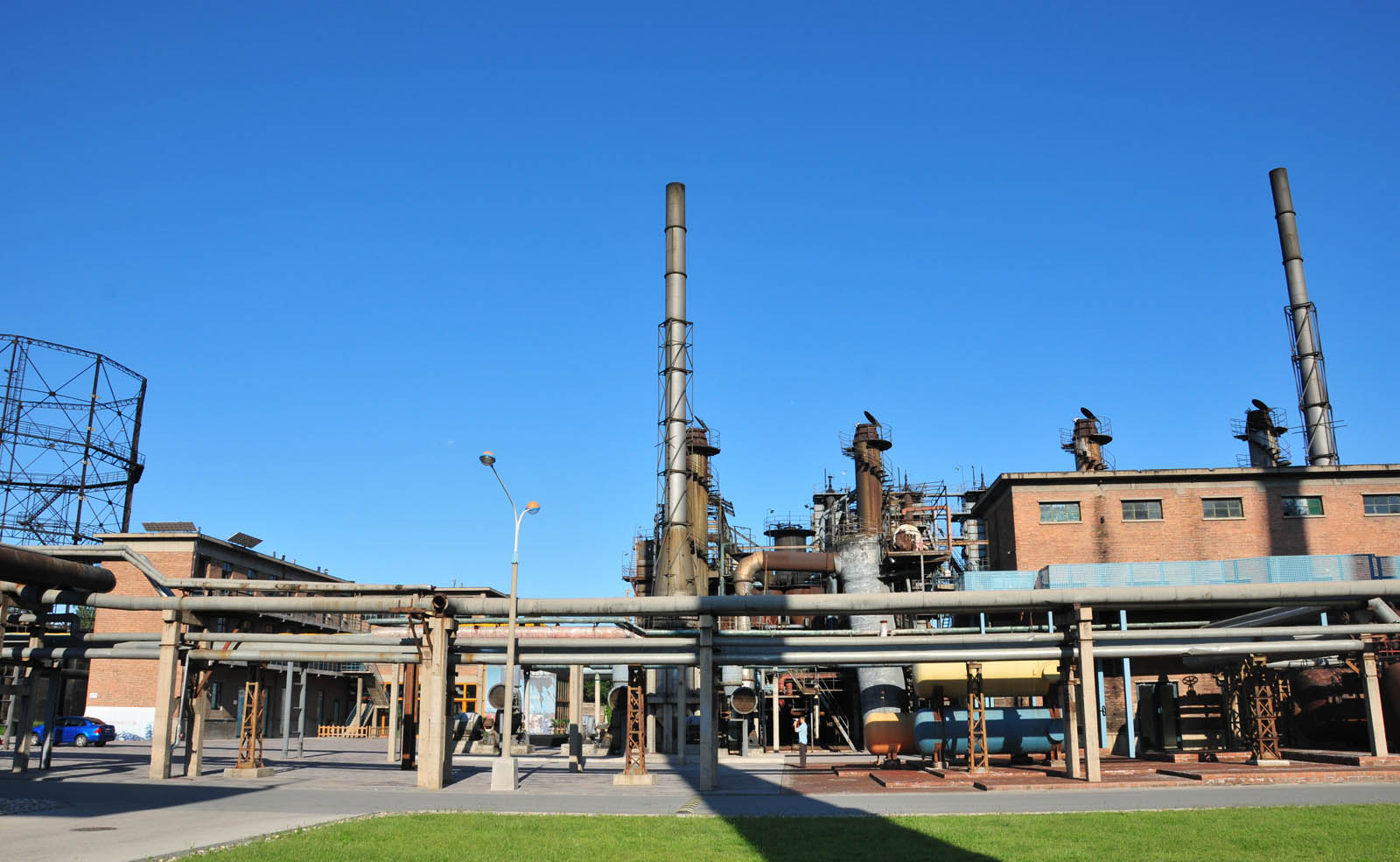 The 798 Art District in Beijing